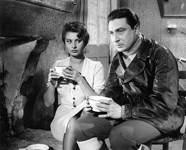 Italian actress Sophia Loren and French actor Gérard Oury talking in front of the fireplace sipping a tea in a scene from the movie The River Girl (La donna del fiume, 1954). Photo by Mondadori Portfolio via Getty Images.